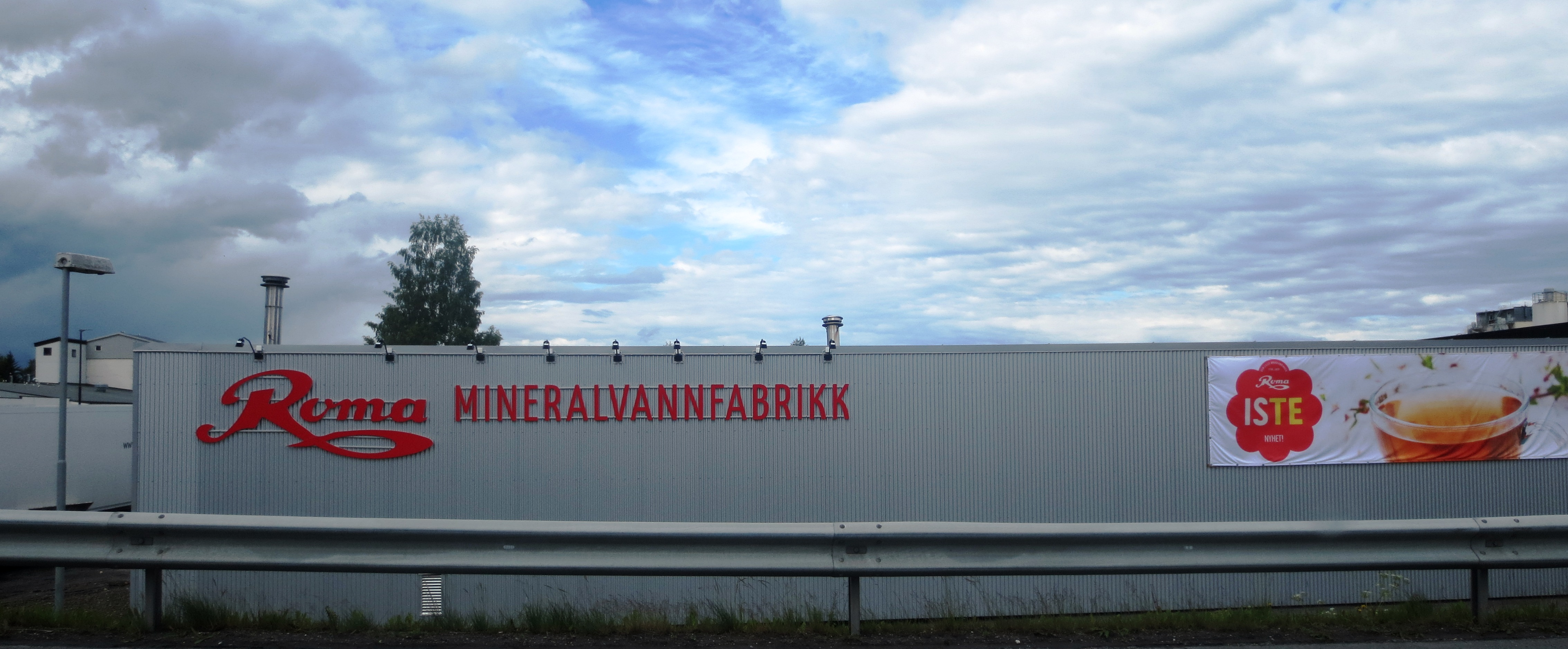 Roma Mineralvannfabrikk (Roma mineral water facility) is a soda and mineral water producer in Lillestrøm, municipality of Skedsmo, county of Akershus, Norway.